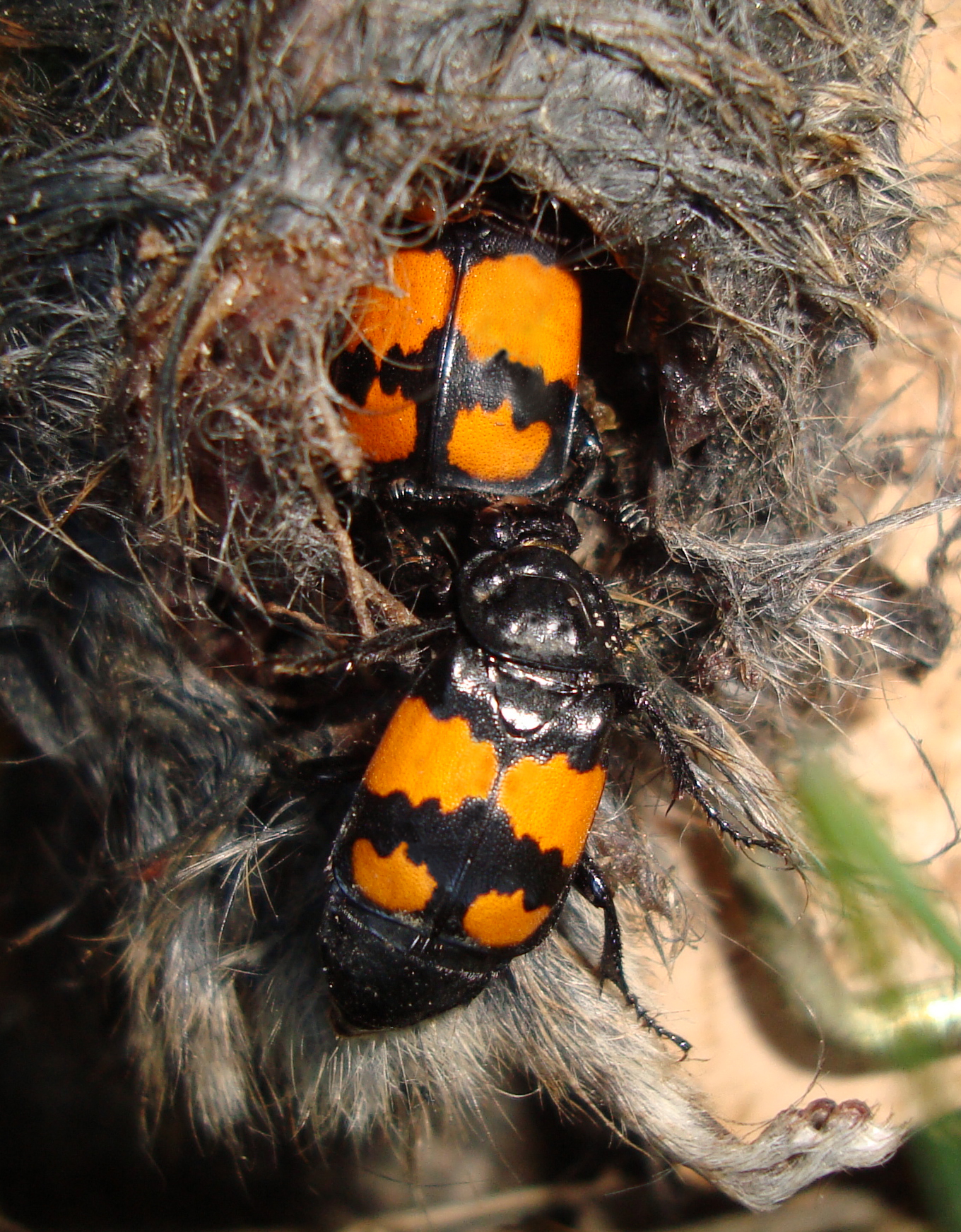 Two common sexton beetles (Nicrophorus vespilloides) in a dead rodent caught in a mouse trap. Picture taken in southern Dalarna, Sweden. Flash reduced from original image.